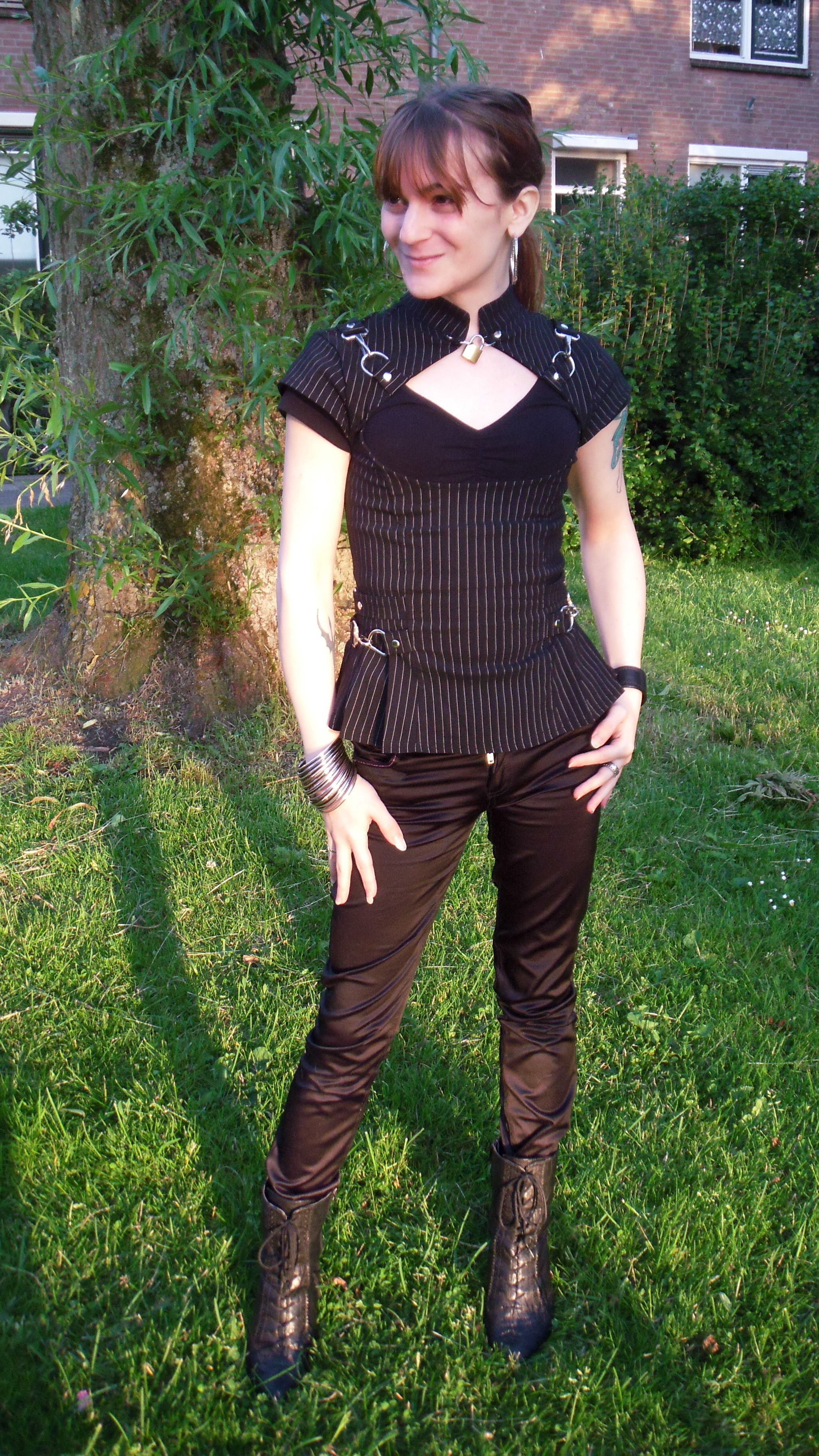 Black 'lock' outfit. Top from Lip Service.